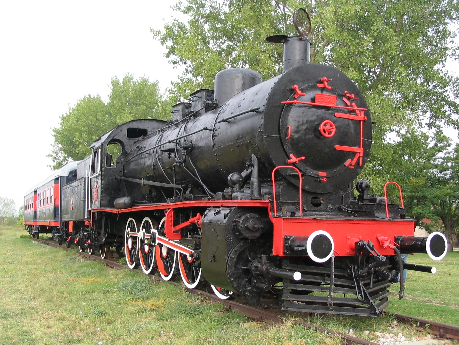 Five-coupled freight steam engine TCDD class 55 (similar to German class 57) in Edirne, Turkey